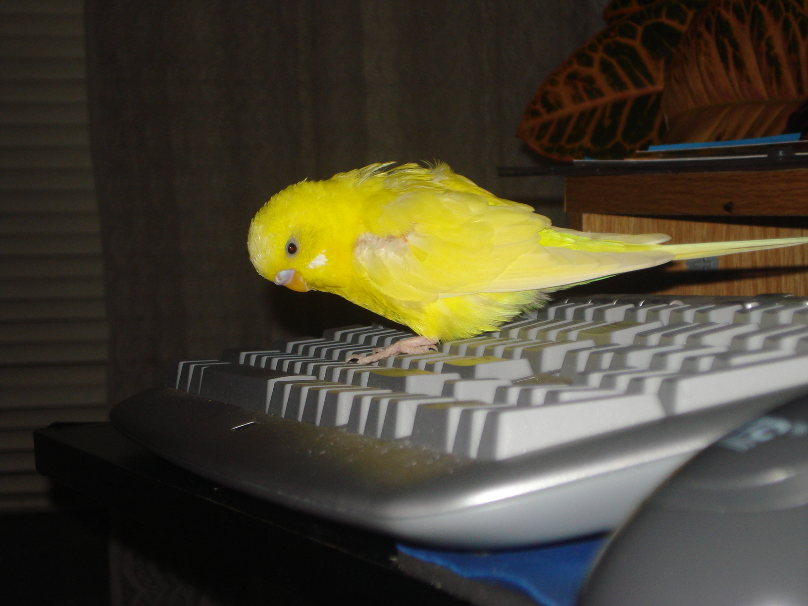 Image taken by my sister,Iris A. Lopez